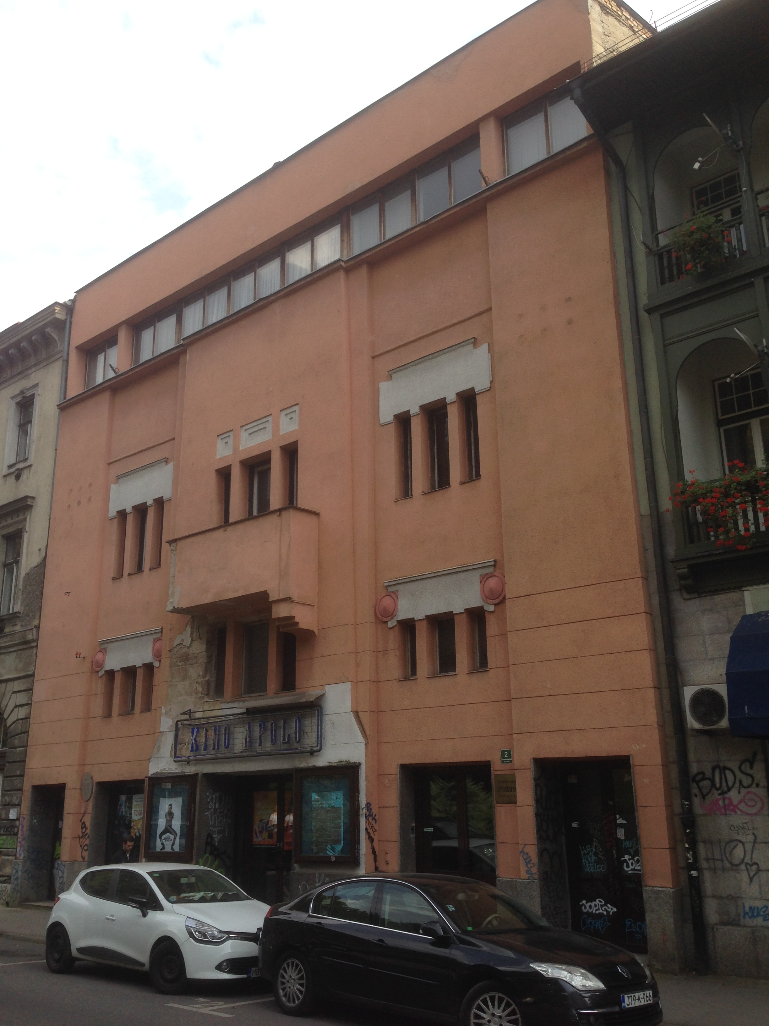 Sarajevo - Apolo cinema